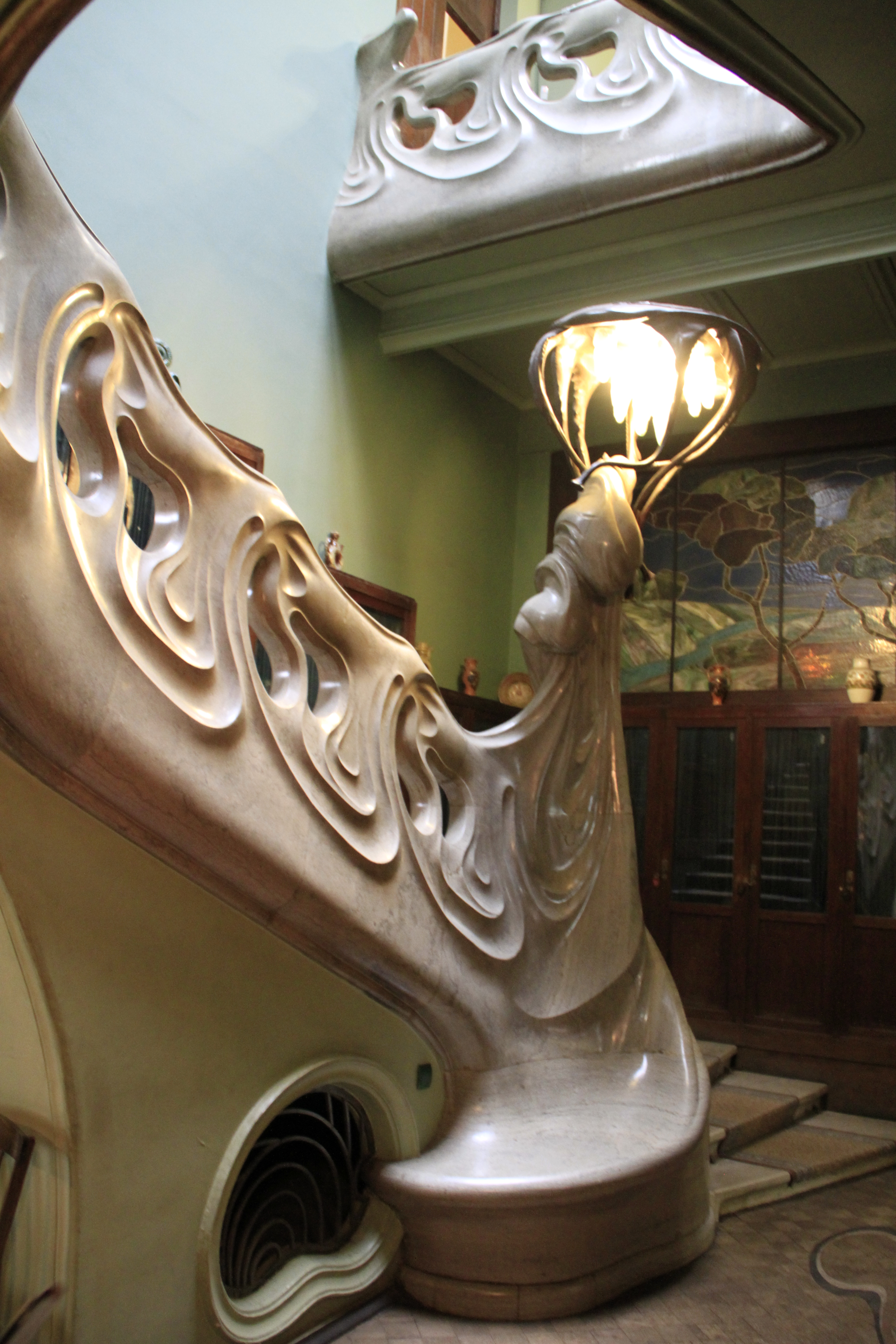 Moscow. Ryabushinsky House. Interiors. Main staircase